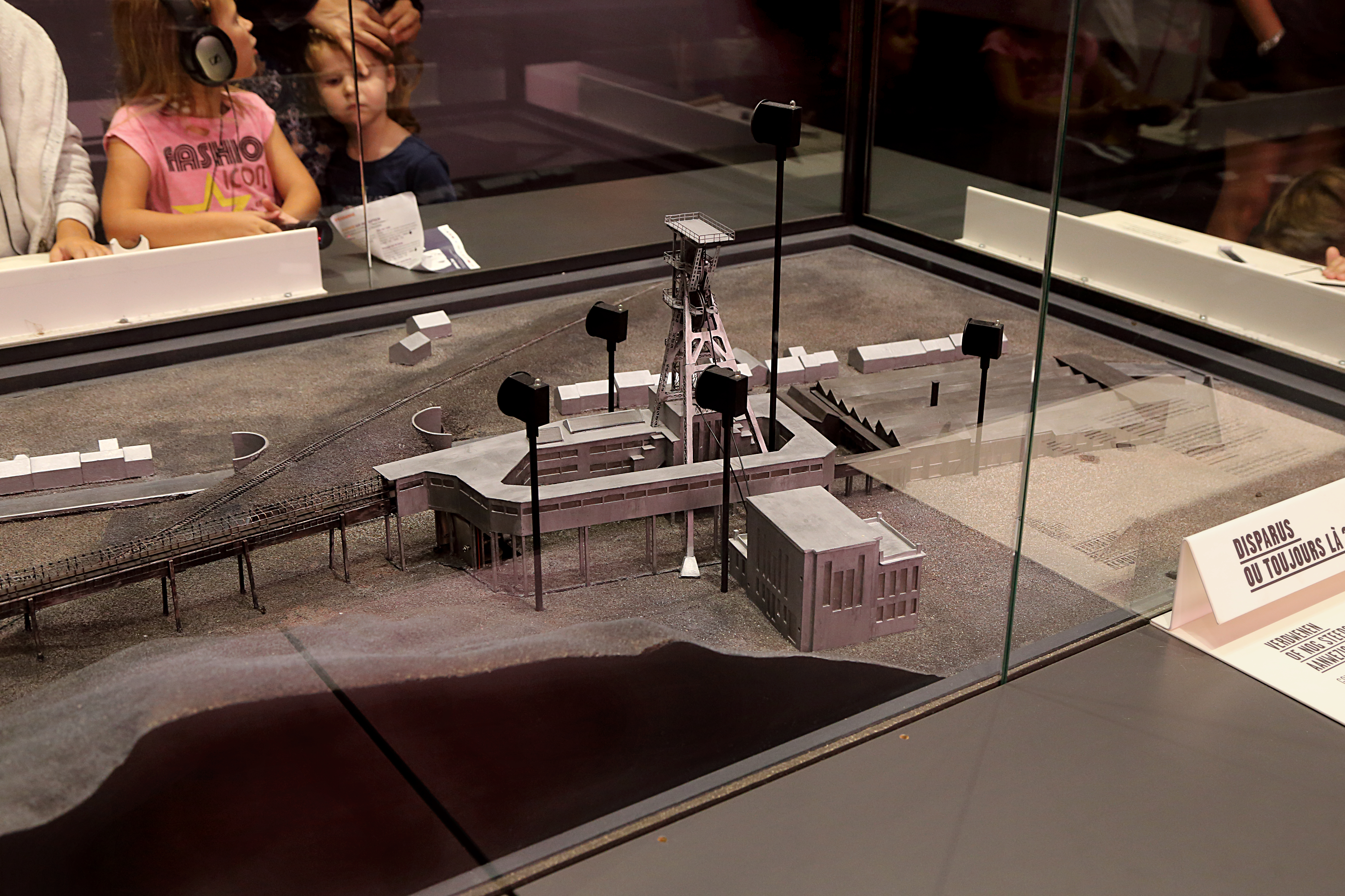 Scale model of the site (coalmine) of the Crachet in the Pass (Parc d’aventures scientifiques et de société) in Frameries, Belgium.